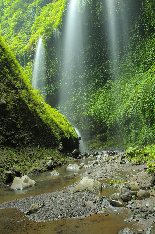 Surrounding cliff of Madakaripura Waterfall, Bromo Tengger Semeru National Park, Lumbang, Probolinggo, Jawa Timur